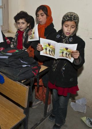 Afghan girl reads aloud from a comic book given to her by Afghan soldiers with 3rd Commando Kandak